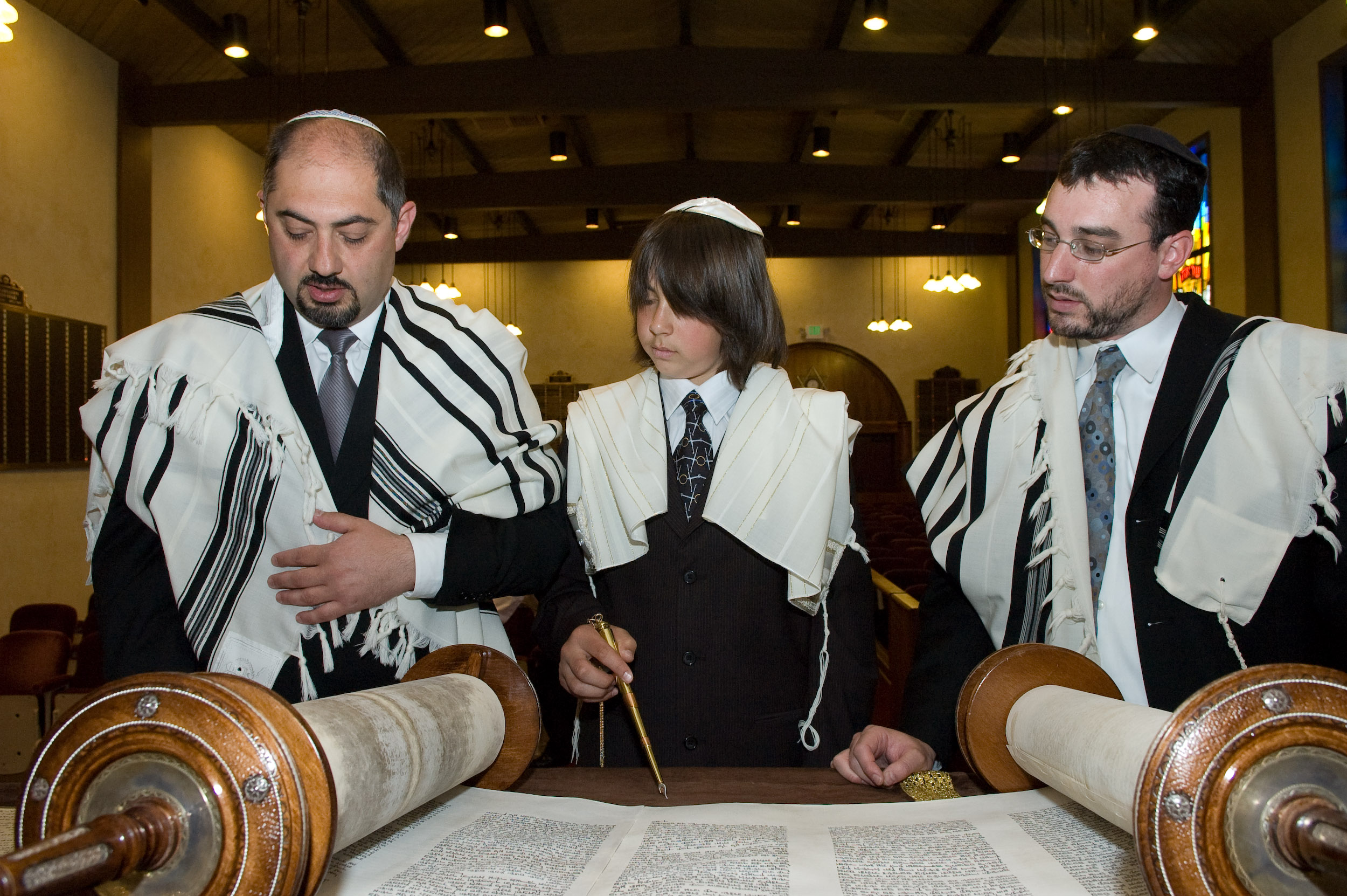 Bar Mitzvah.